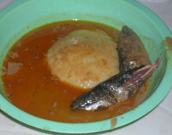 This is a fairly typical meal in Ghana. Fufu is pounded cassava (and possibly plantain or cocoyam). It sits in groundnut (peanut) soup, but at inexpensive fast food places it's mostly oil. Then there's the fish. All this costs 4000 cedis.